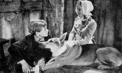 Frankie Thomas, Helen Parrish, and Lightning in the 1935 film A Dog of Flanders Other information for an explanation of the copyright for information regarding public domain